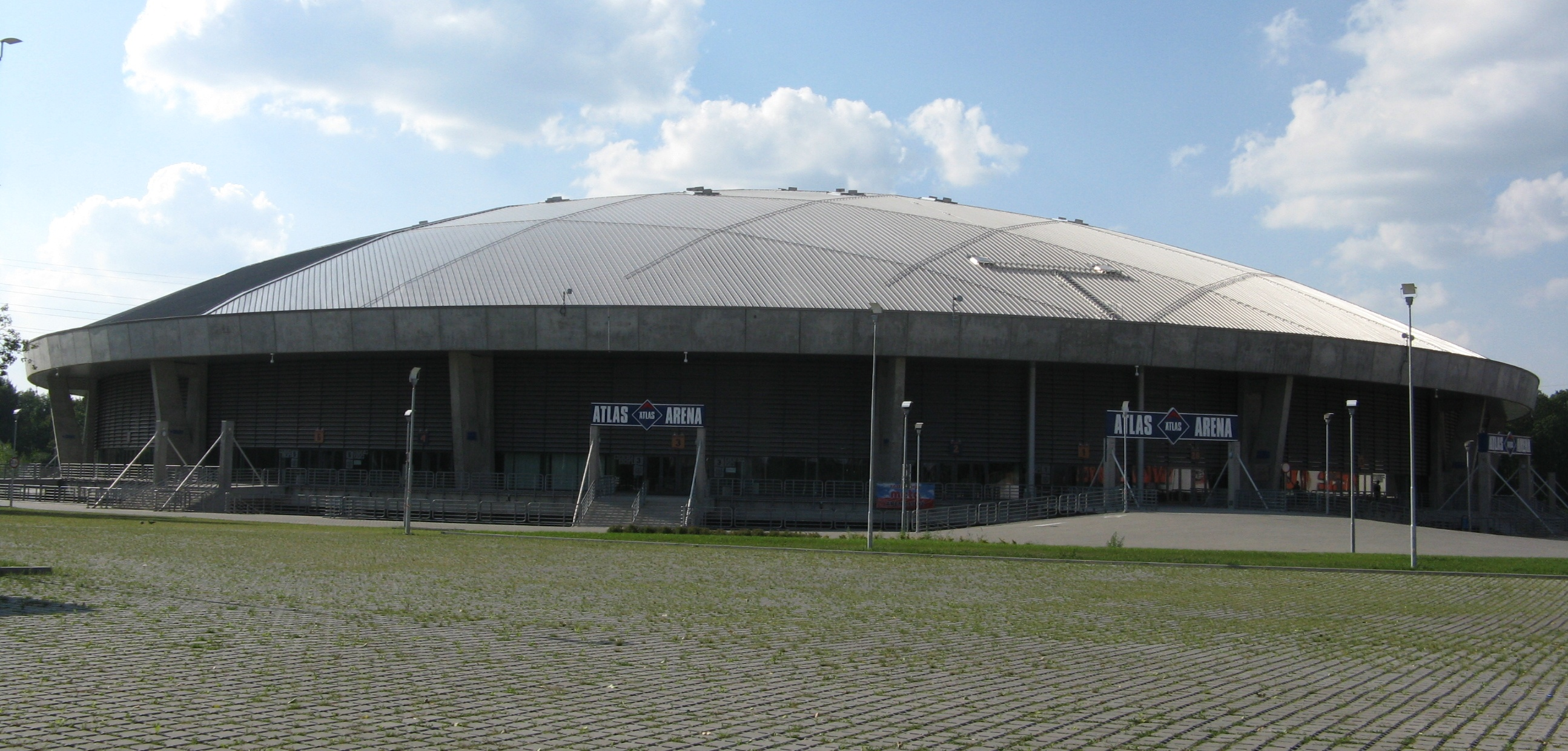 Atlas Arena - indoor arena in Łódź, Poland